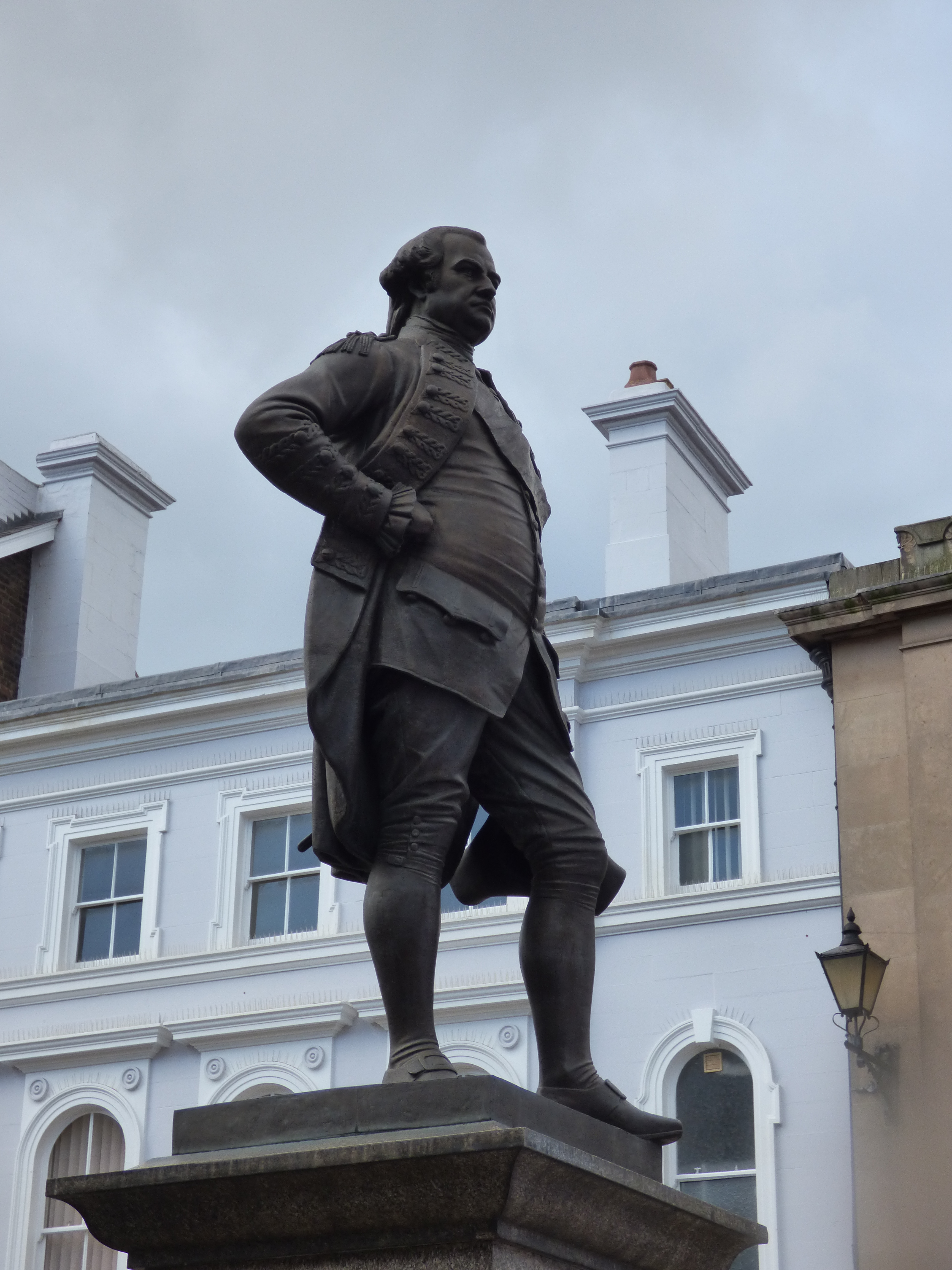 The statue of Clive of India in Shrewsbury Square (The Square) near the High Street. It is in front of the Old Market Hall. Statue of Robert Clive, First Baron of India (1725-1774) The statue is Grade II listed. Statue of Lord Clive, Shrewsbury